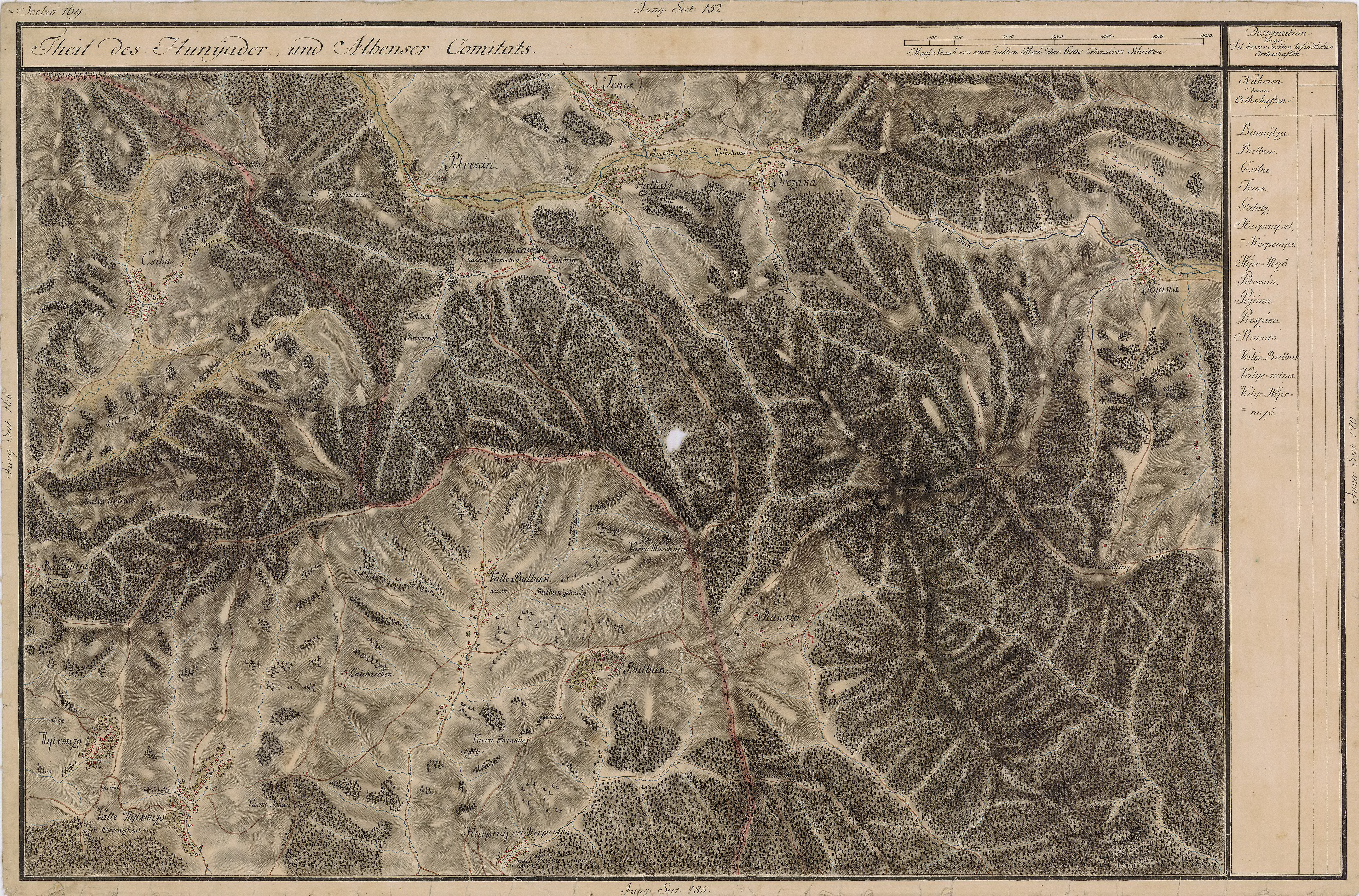 Grand Duchy of Transylvania, 1769-1773. Josephinische Landaufnahme pg.169